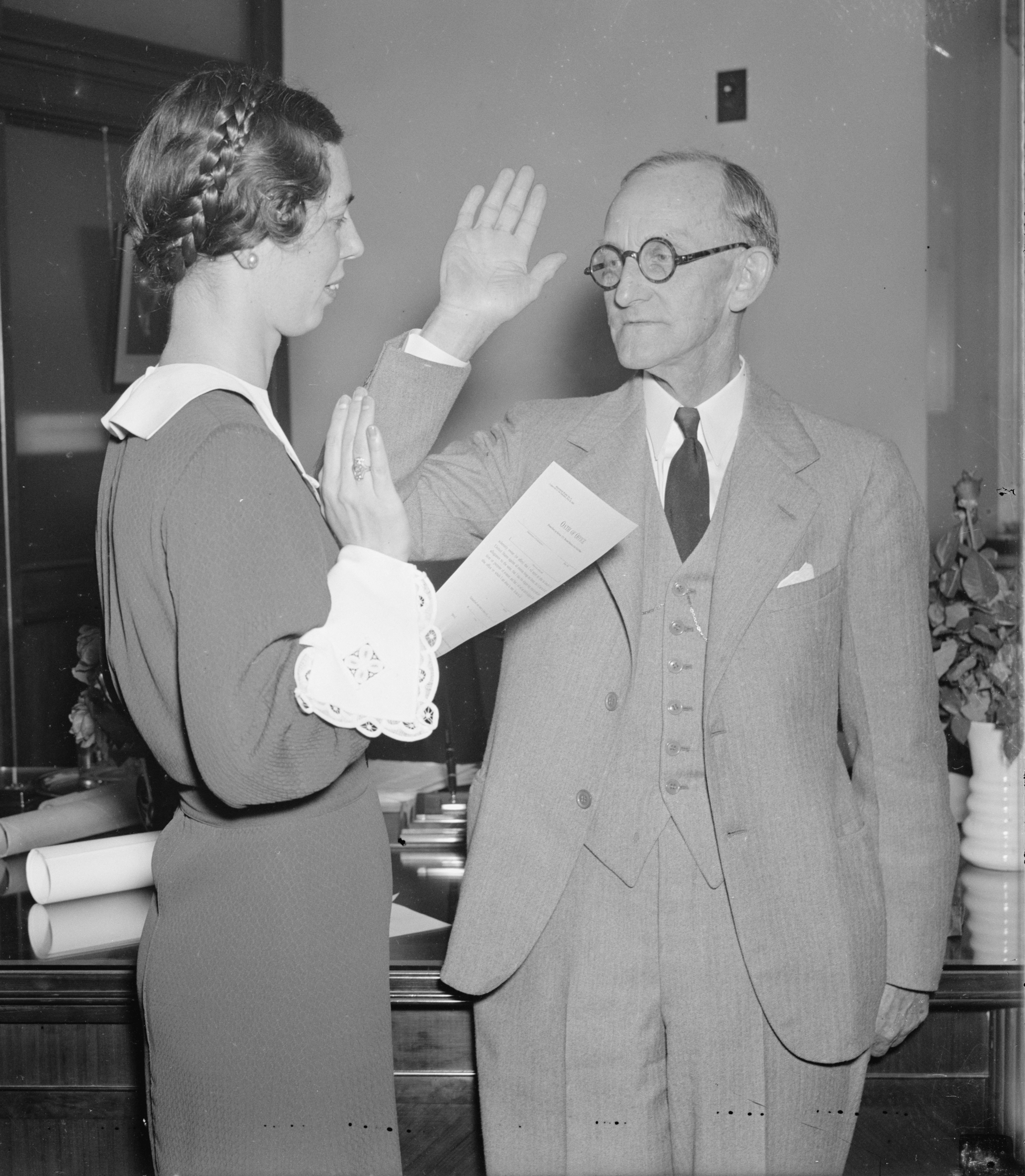 Frank R. McNinch being sworn in as chairman of the Federal Communications Commission, 1937-10-01